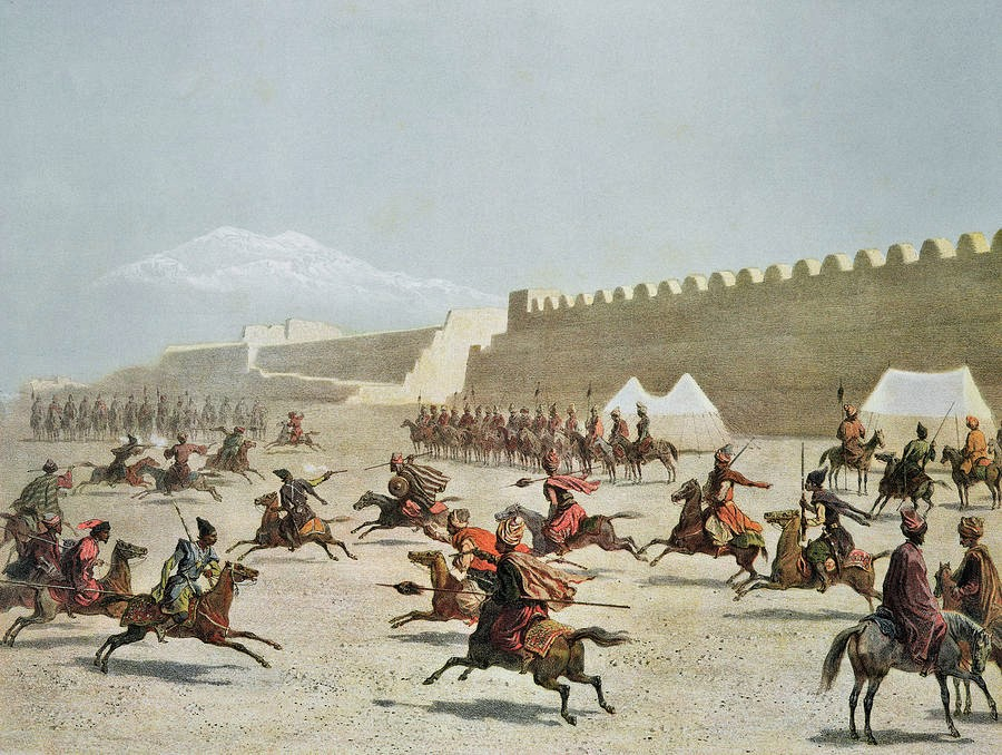 Trick Ridings of Kurds and Tatars in front of the Fortress Sardar-Abbat in Armenia. 1840s. oil on canvasmedium QS:P186,Q296955;P186,Q12321255,P518,Q861259. The Russian Museum, St. Petersburg, Russia.